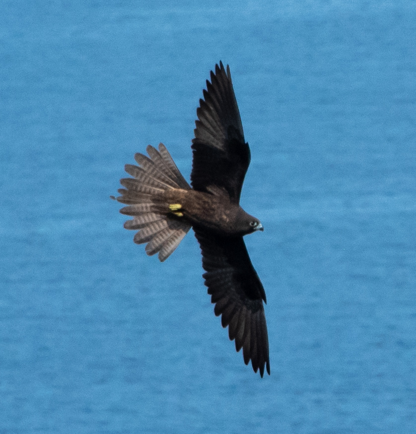 Adult Eleonara's Falcon (dark morph)